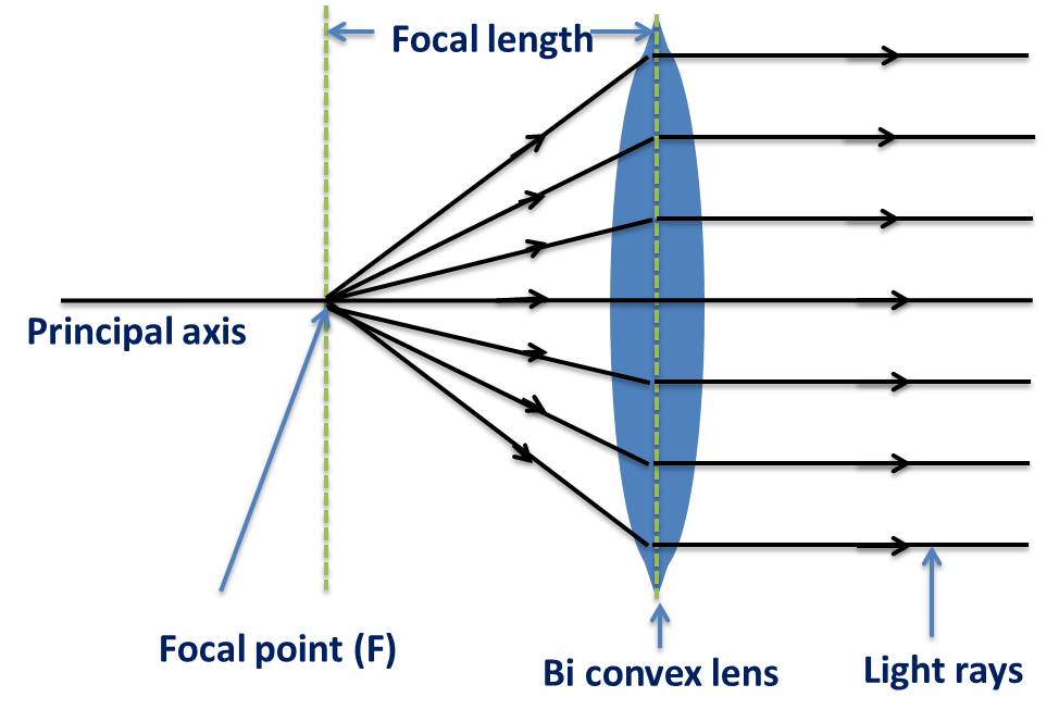 behaviour of light rays from focal point in convex lens